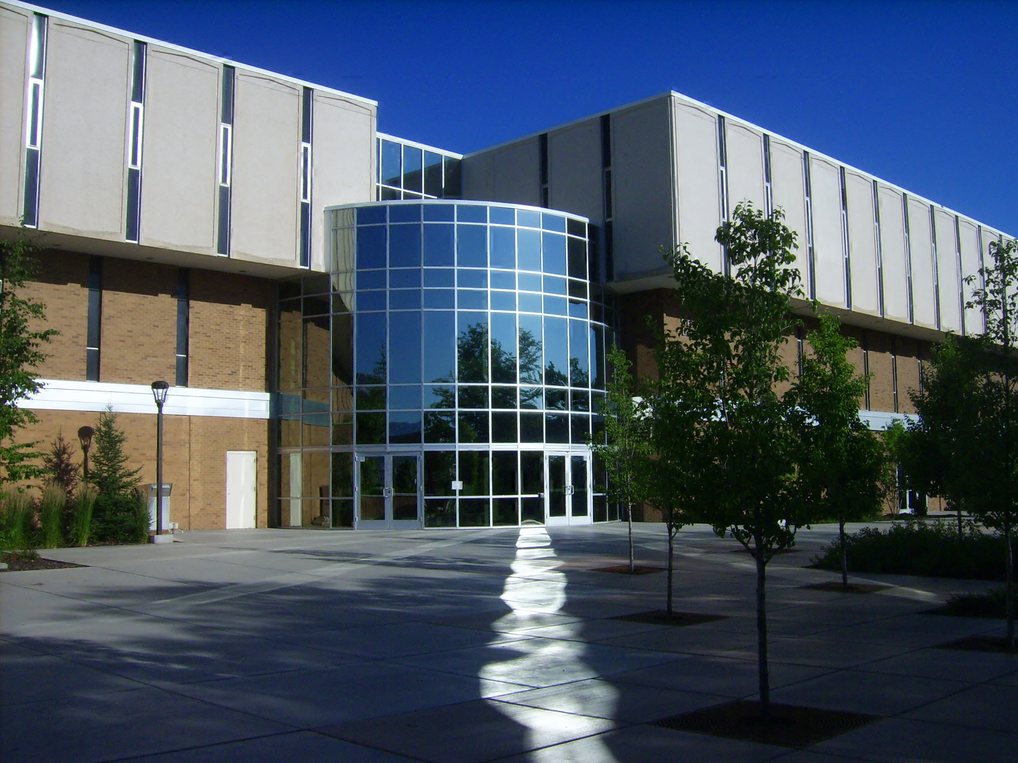 Weber State University campus